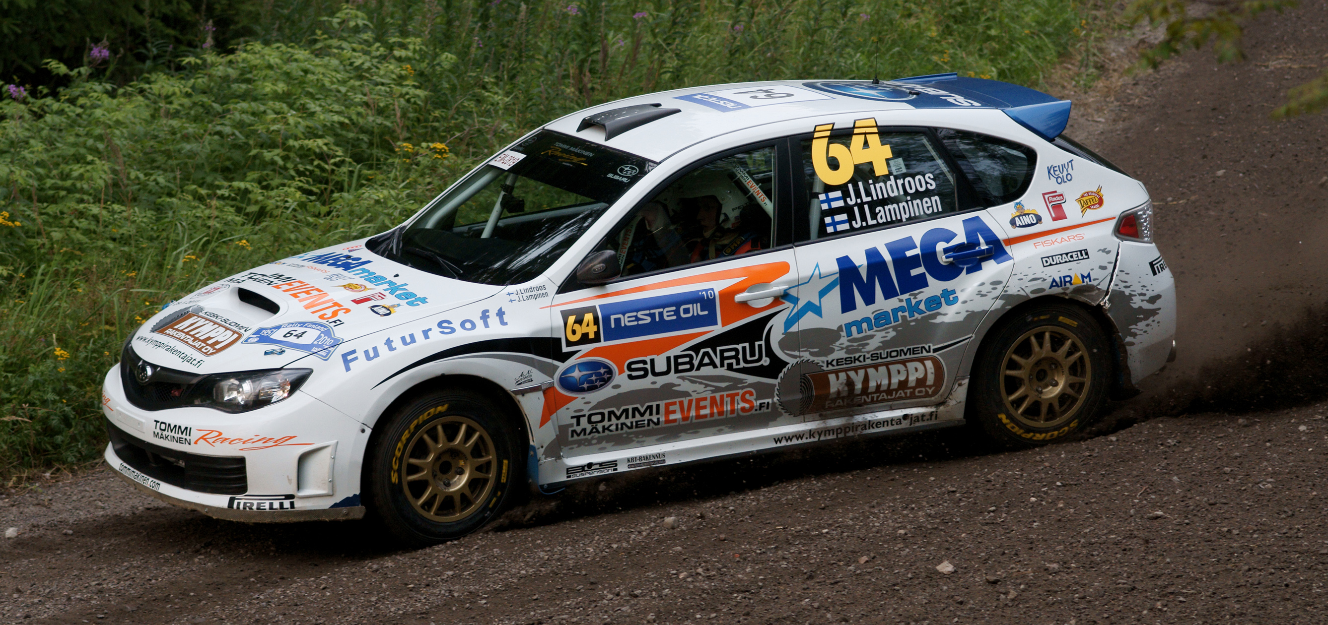 Joonas Lindroos driving at Laajavuori special stage, Rally Finland 2010.